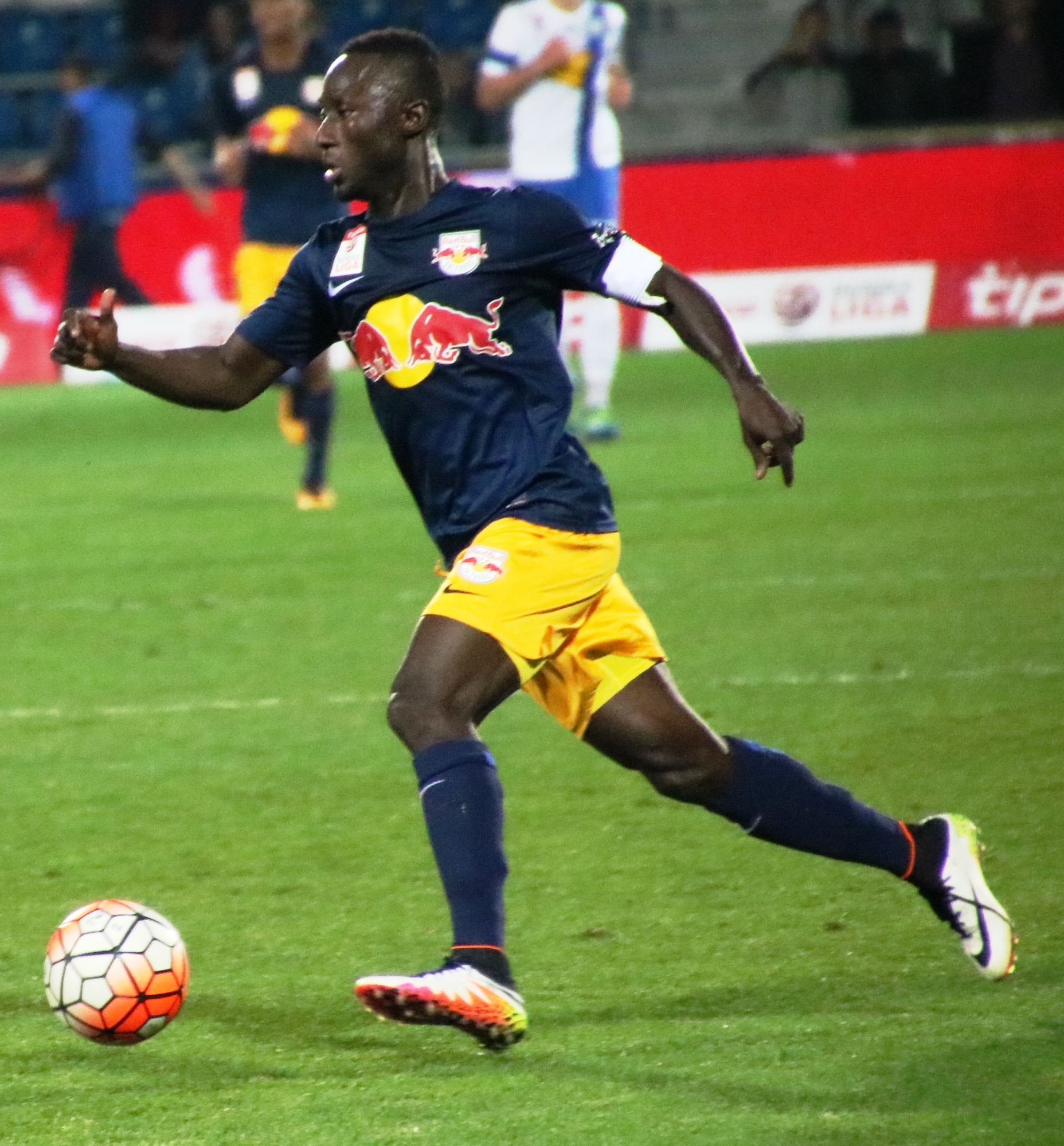 league match Austria Bundesliga 35th round